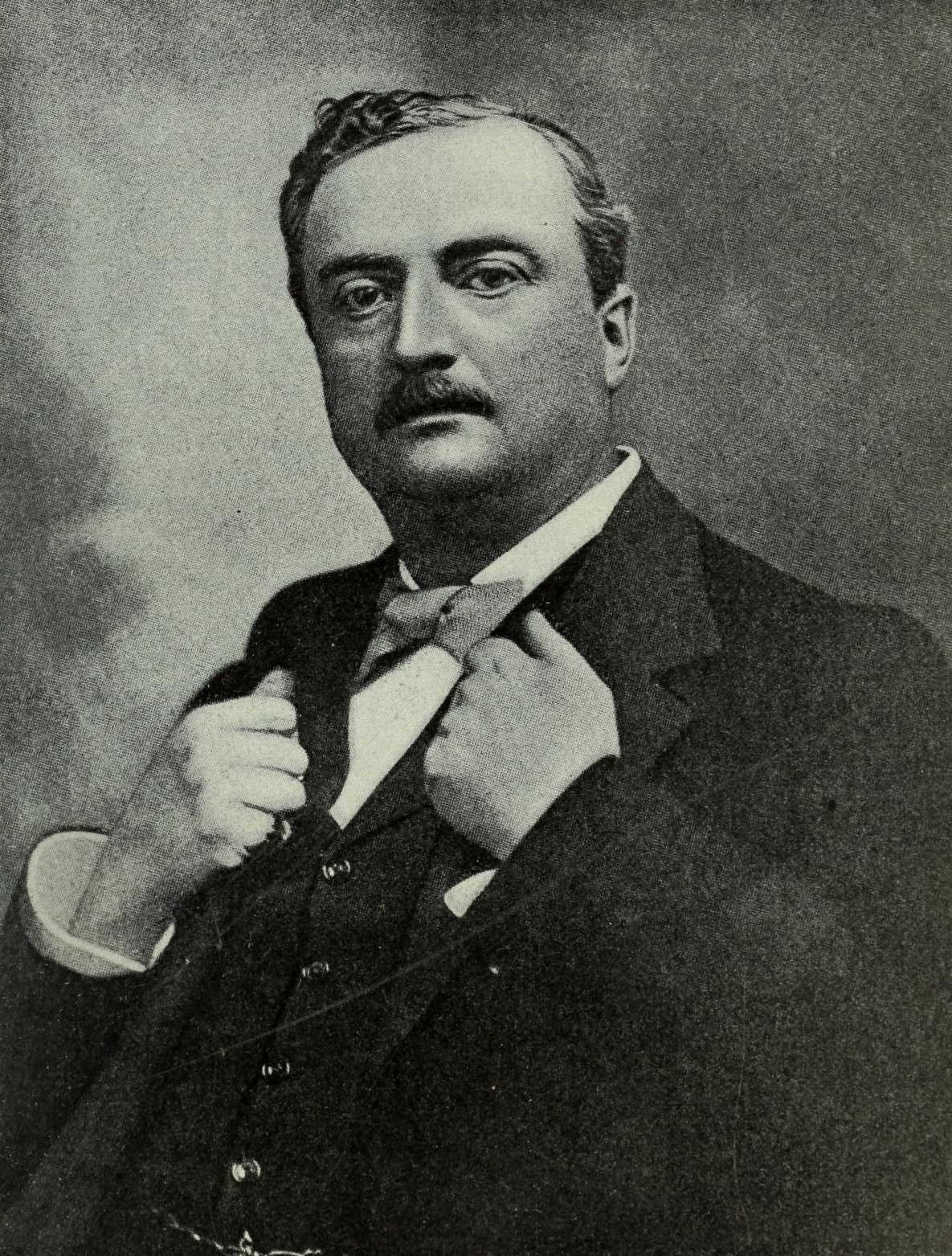 John Redmond